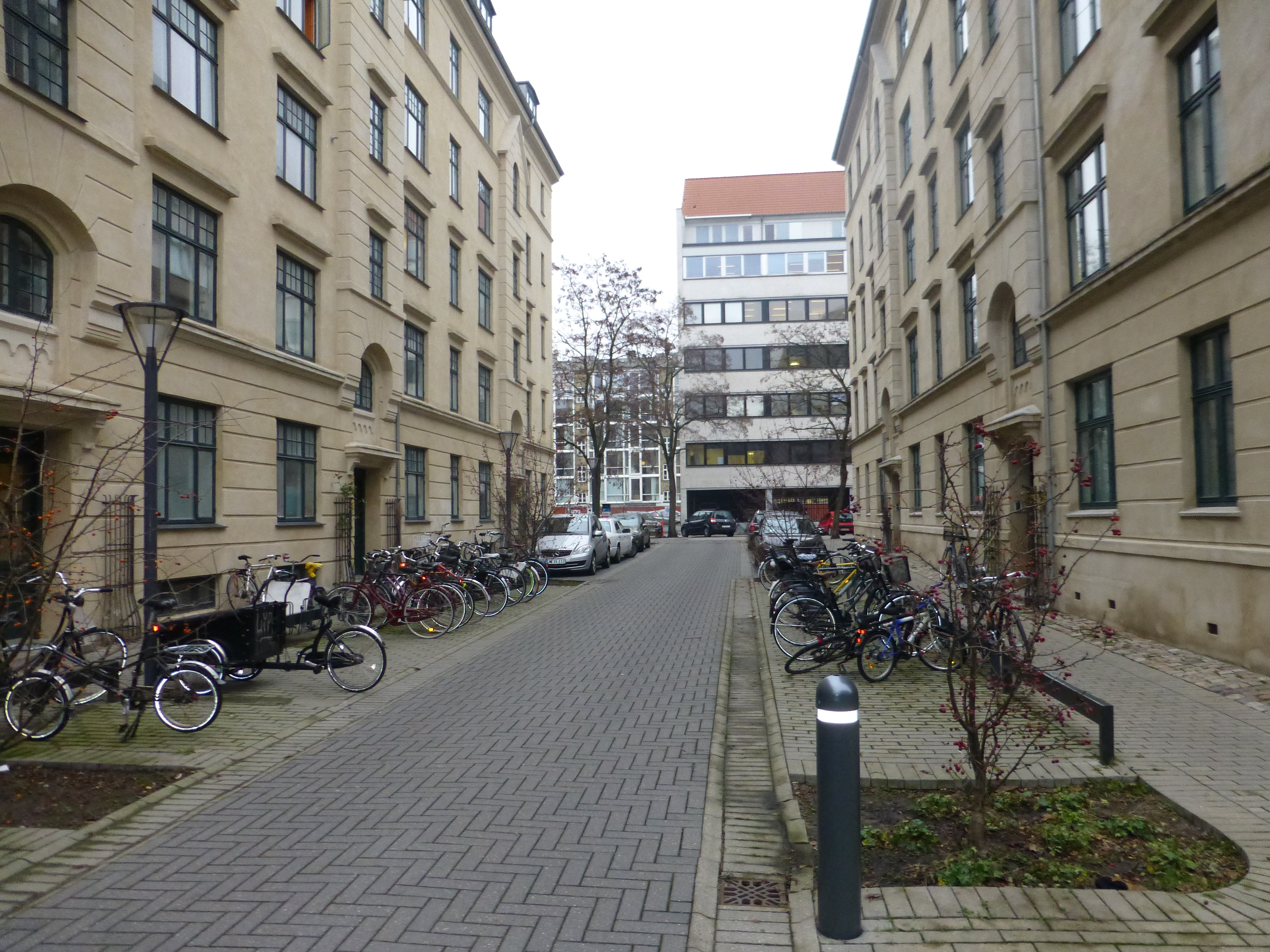 The street Møgeltøndergade in Vesterbro in Copenhagen.